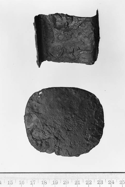 Iron artefacts found in one of the graves on Norra Bredsundsnäset by lake Horrmundsjön in Dalarna, Sweden.